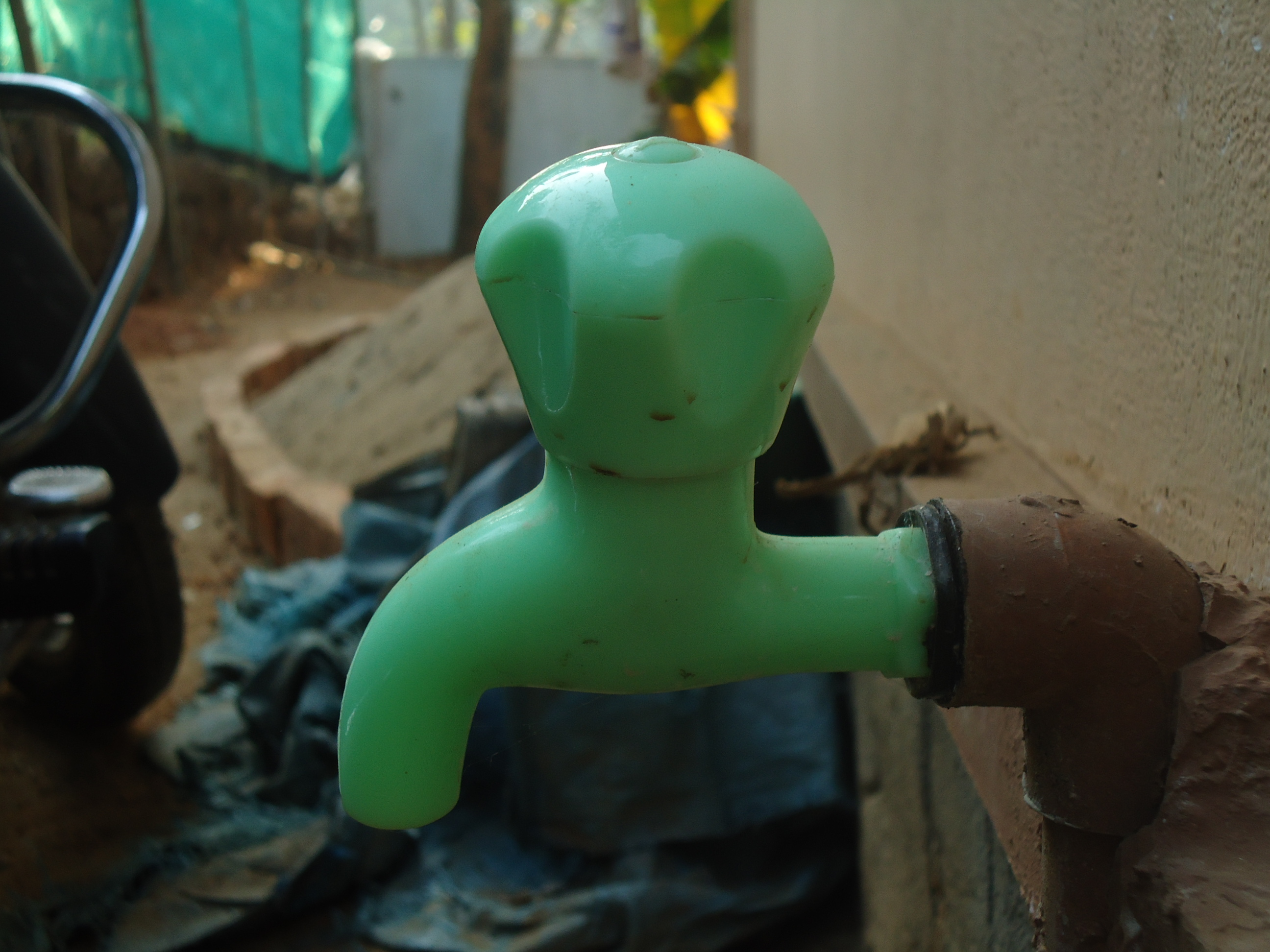 Water Tap